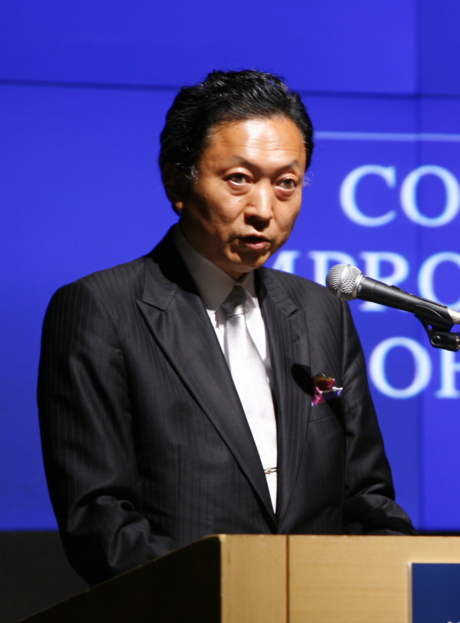 Yukio Hatoyama, Member of the House of Representatives, addressed at the World Economic Forum Japan Meeting 2009 in Shinjuku Ward, Tōkyō Metropolis, on September 4, 2009.